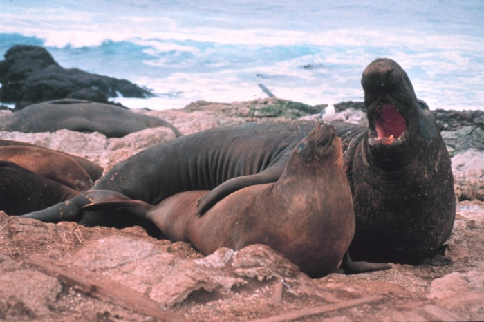 Northern elephant seal, male and female (Mirounga angustirostris), Gulf of the Farallones National Marine Sanctuary (California)